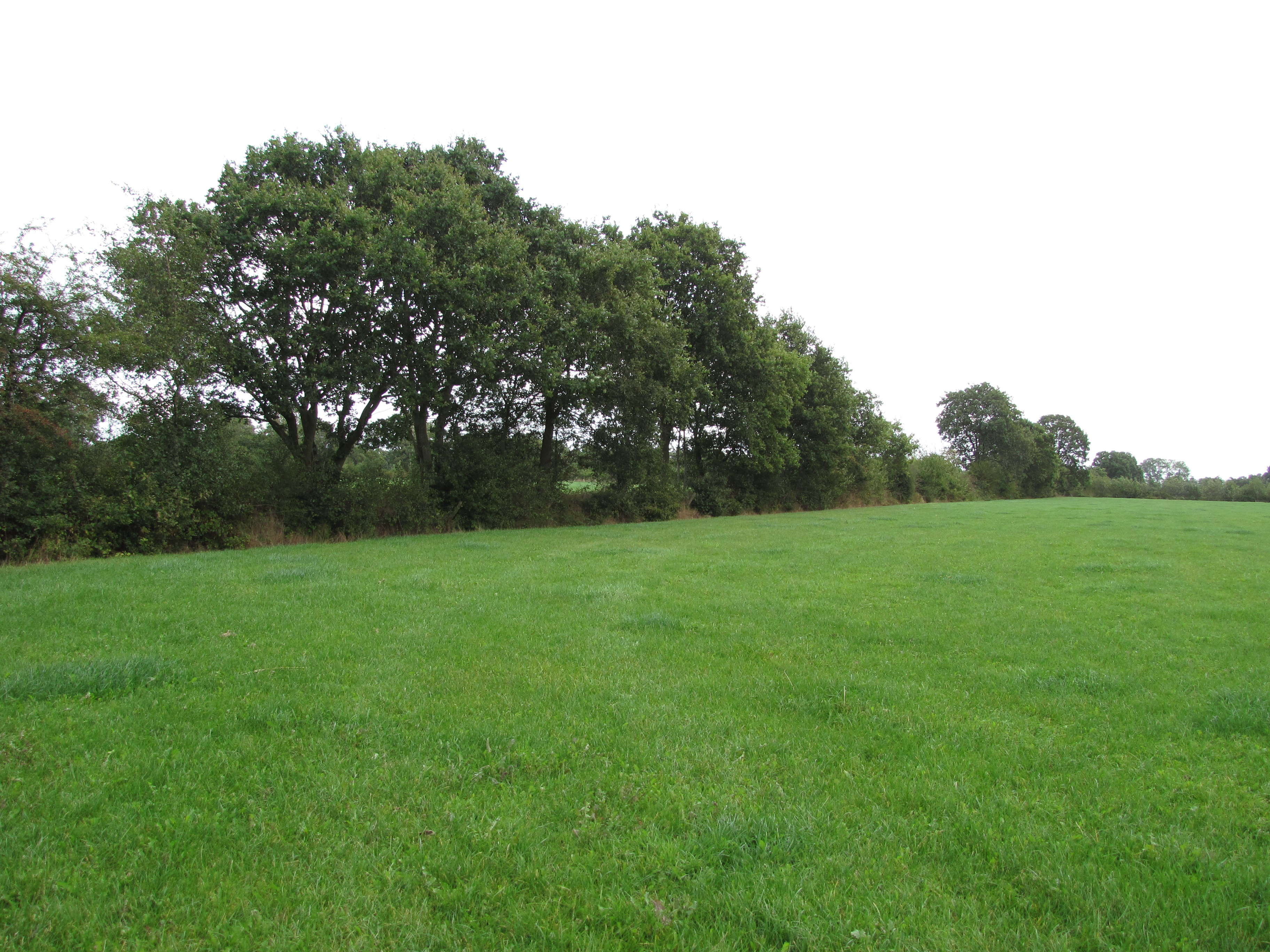 Earth wal with trees/bushes between the different fields in the norht east of Fryslân